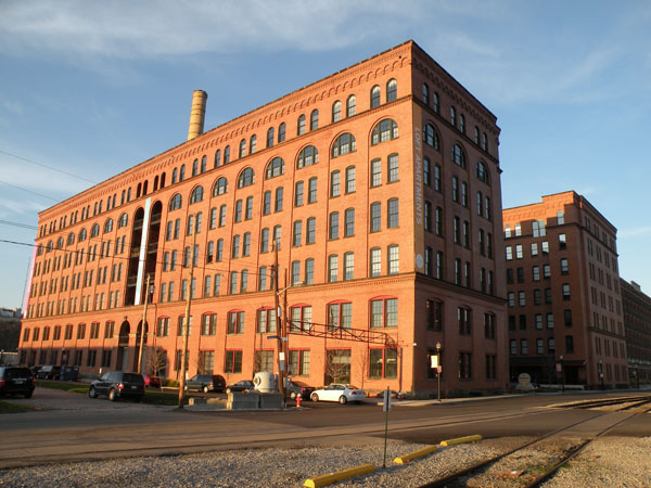 Picture of Armstrong Cork Company (formerly of Armstrong World Industries) located at 23rd and Railroad Streets in the Strip District neighborhood of Pittsburgh, Pennsylvania, on December 1, 2009. The two main buildings of the complex were built around 1901, and the section between the two buildings was added in 1913. The building complex is listed on the National Register of Historic Places. Architect: Frederick J. Osterling (1865–1934). Architectural style: Romanesque Revival, Beaux-Arts. Today, the building is maintained as loft apartments (since May 2007), and is called "The Cork Factory " (also known as the "Cork Factory Lofts", and "The Cork Factory - loft apartments on the river") at 2349 Railroad Street in Pittsburgh, PA.